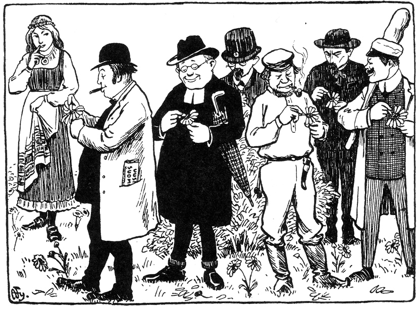 A political caricature drawn by Alex Federley before first Finnish parliamentary election: men representing different parties competing for the Finnish Maiden. Published originally in satirical magazine Velikulta.